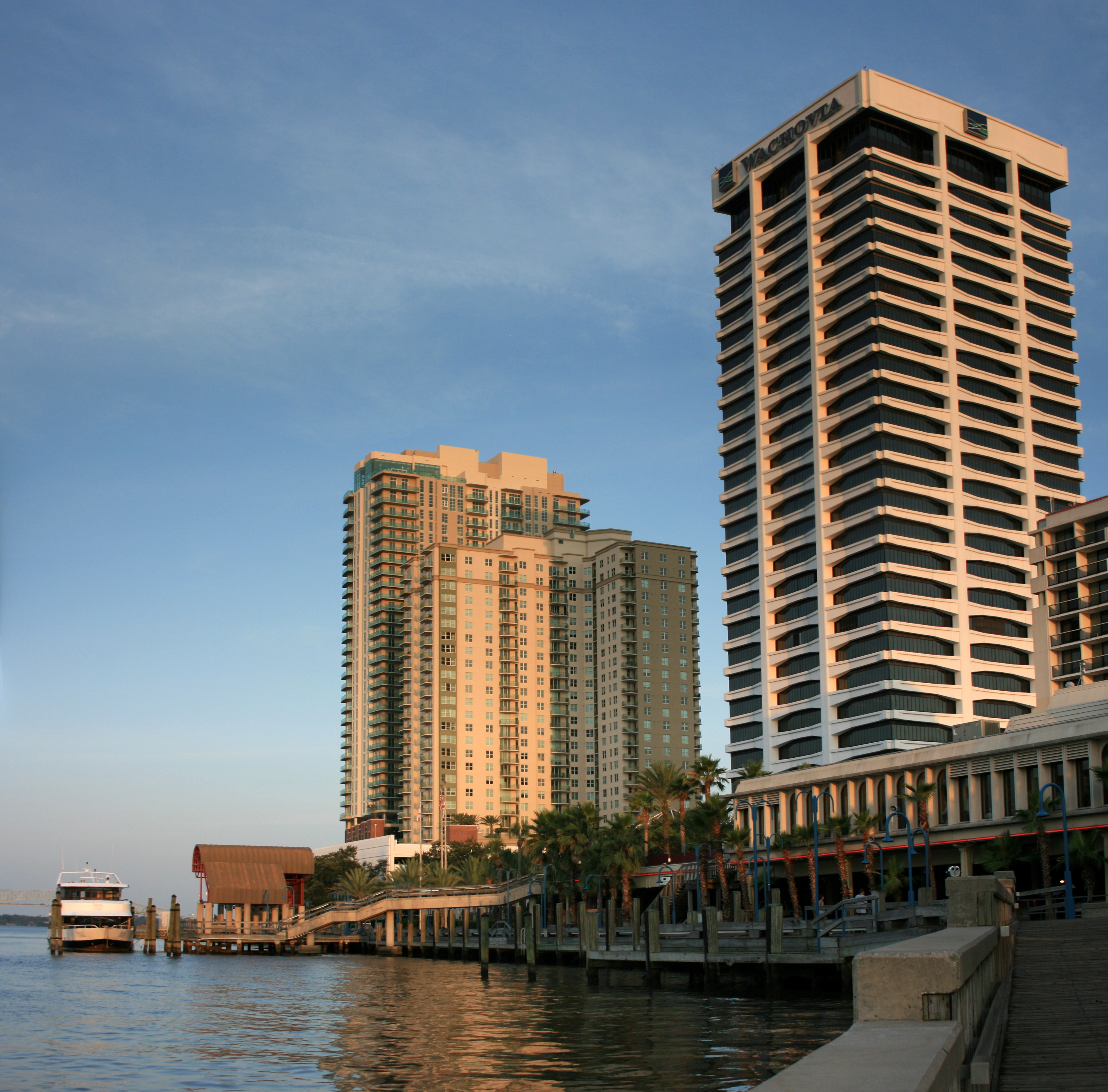 Panorama of Riverplace Tower and The Peninsula Condominiums from the South Riverwalk in Jacksonville, Florida, USA.